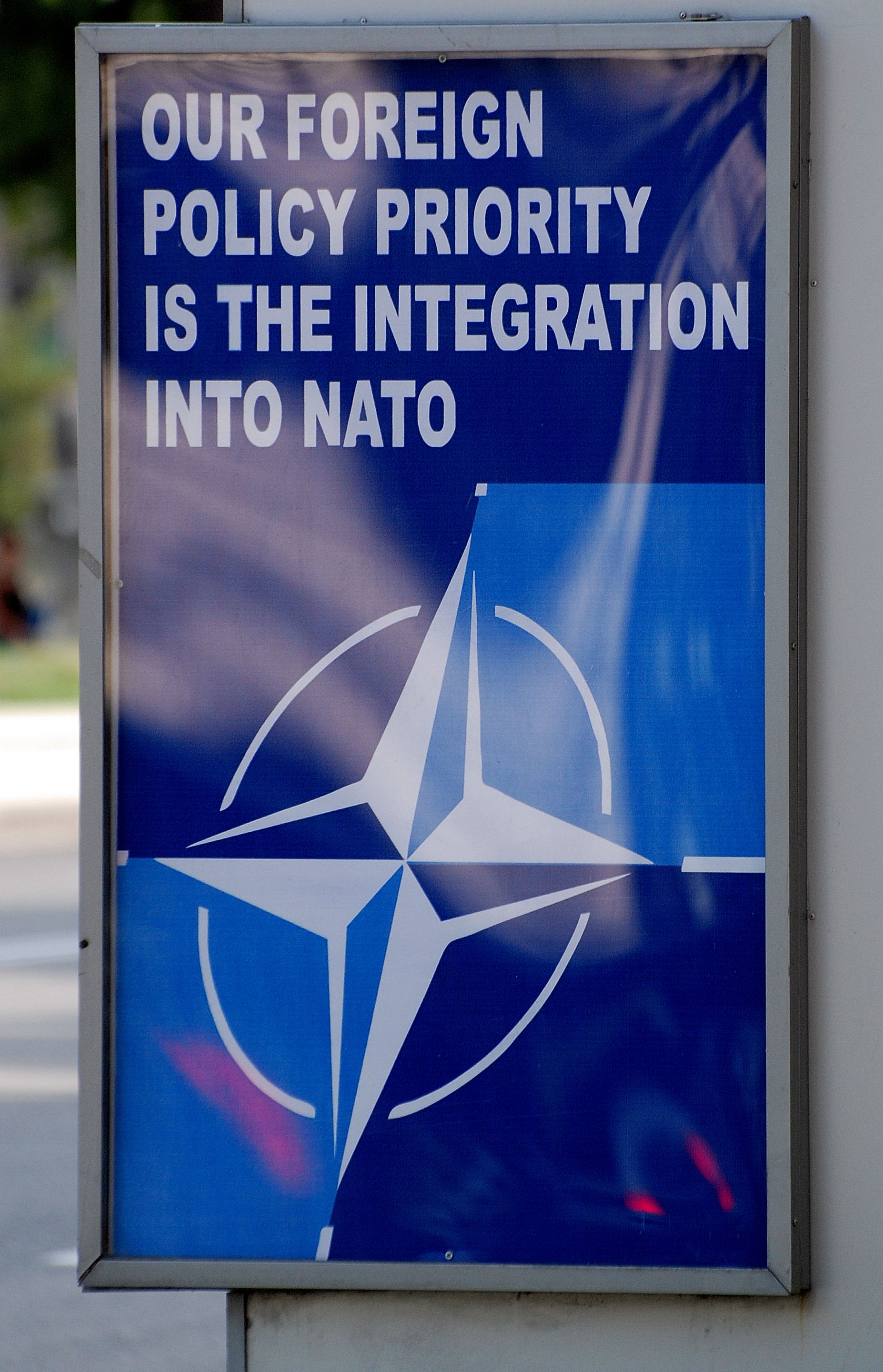 Pro-NATO poster in Tbilisi, Georgia, 2009